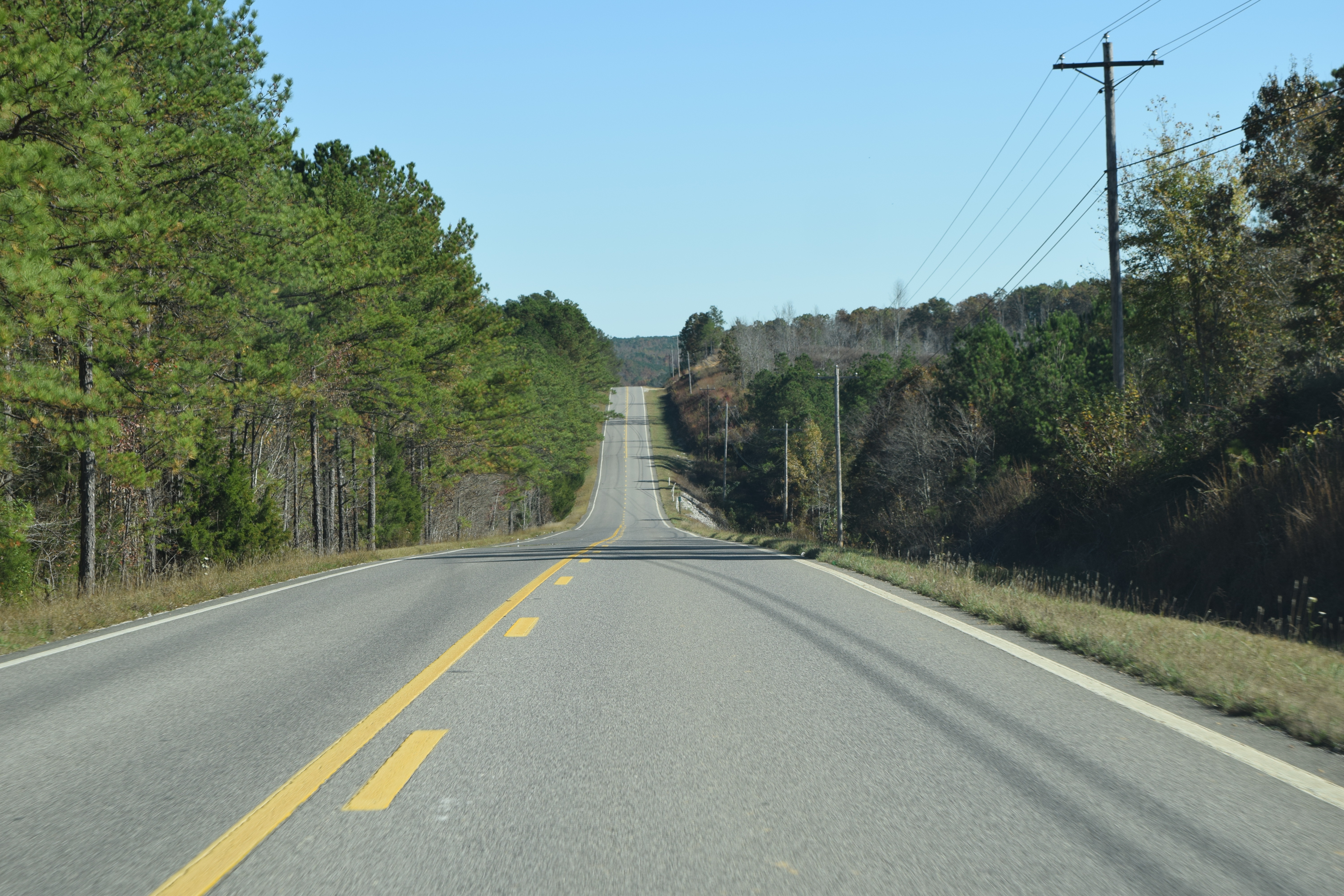 Looking northbound on Alabama State Route 247 in Franklin County